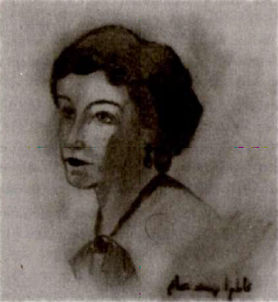 Wife of Sultan Abdulhamid II